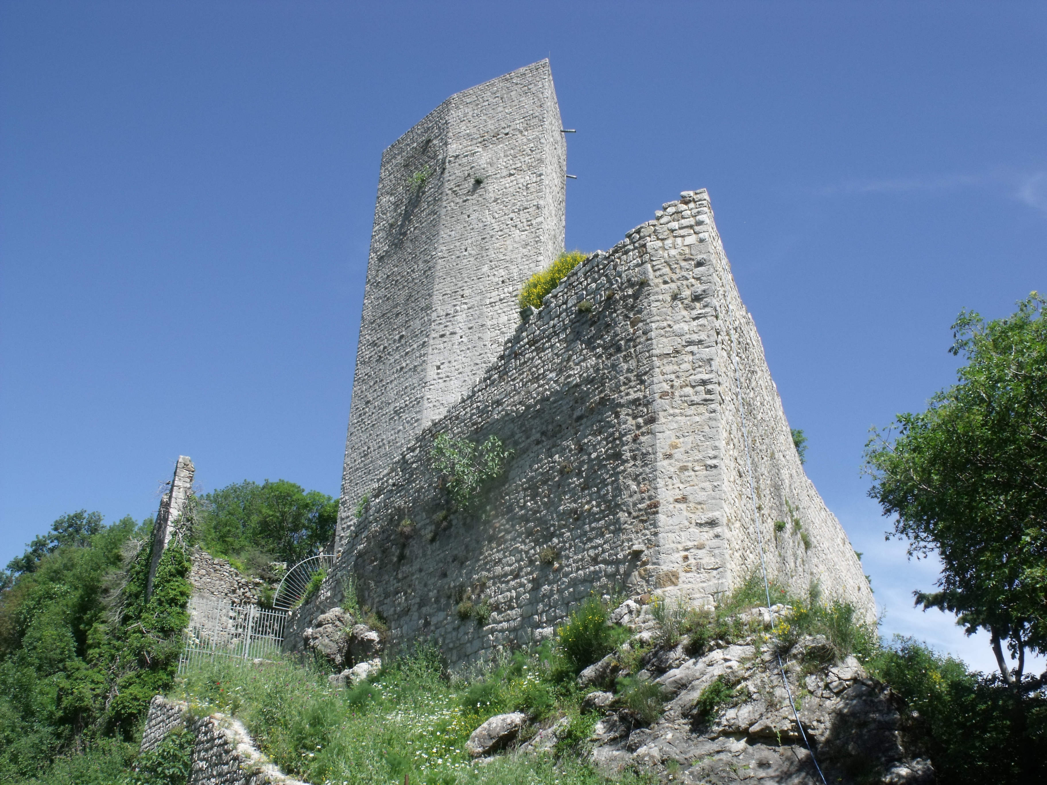 Castle Rocca Silvana near Selvena, Castell’Azzara, Monte Amiata Area, Province of Grosseto, Tuscany Italy